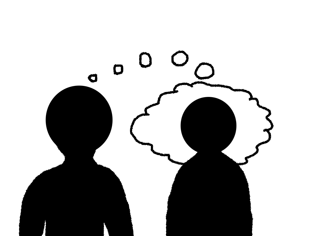 Illustration of mindfulness